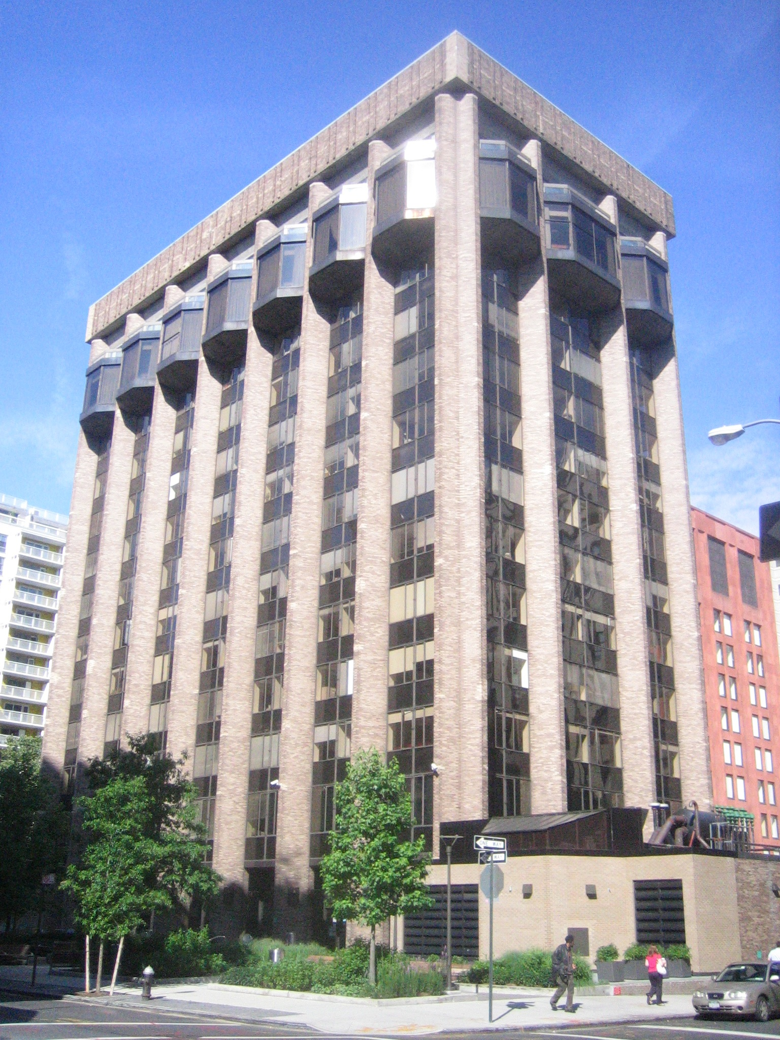 Warren Weaver Hall, the home of the Courant Institute of Mathematical Sciences. Address: 251 Mercer Street (at the corner with West 4th St) in Manhattan, NY. See also File:Wweaverhall.JPG